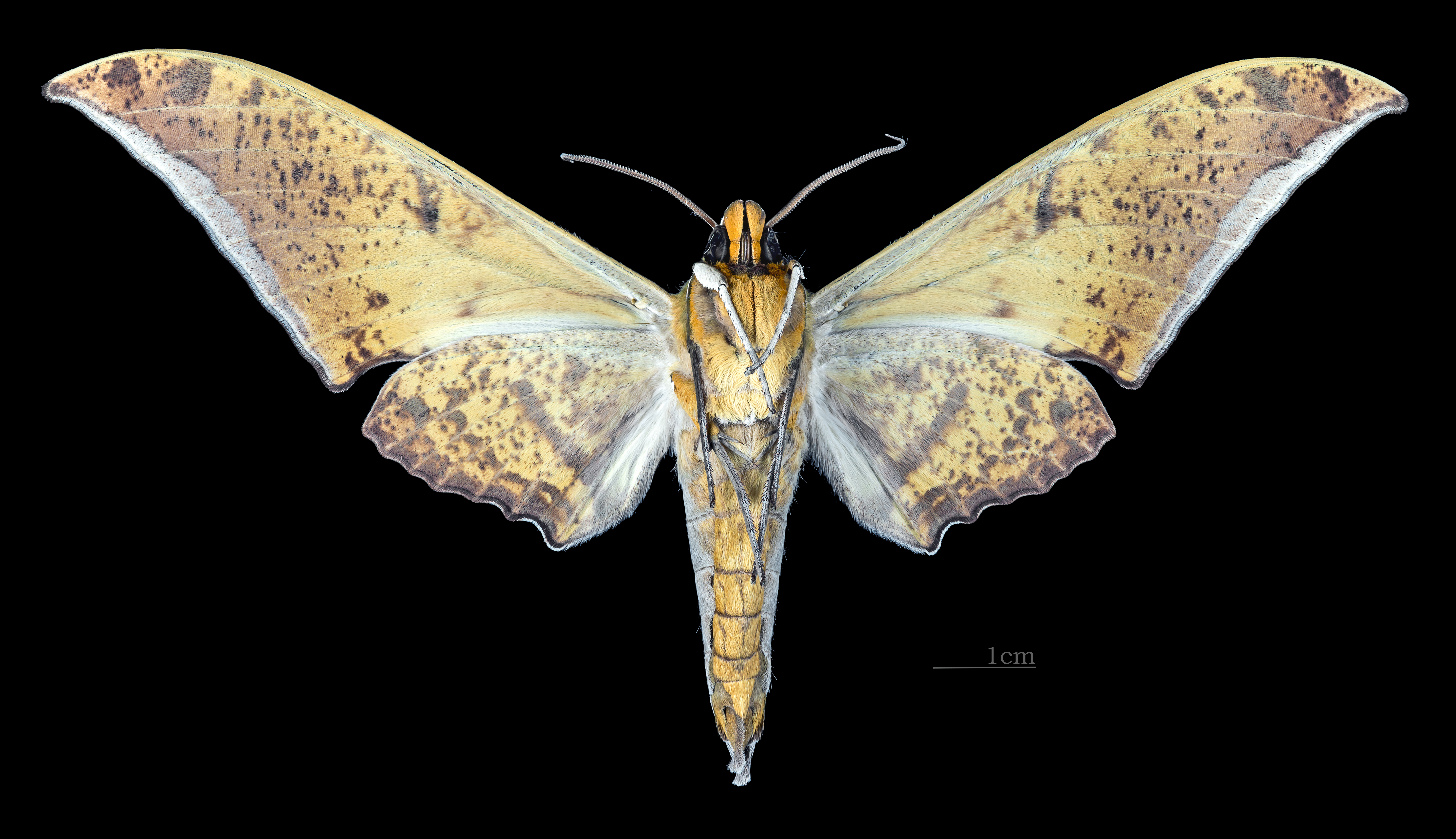 Ambulyx sericeipennis - △ Ventral side Collection of the Mathematician Laurent Schwartz